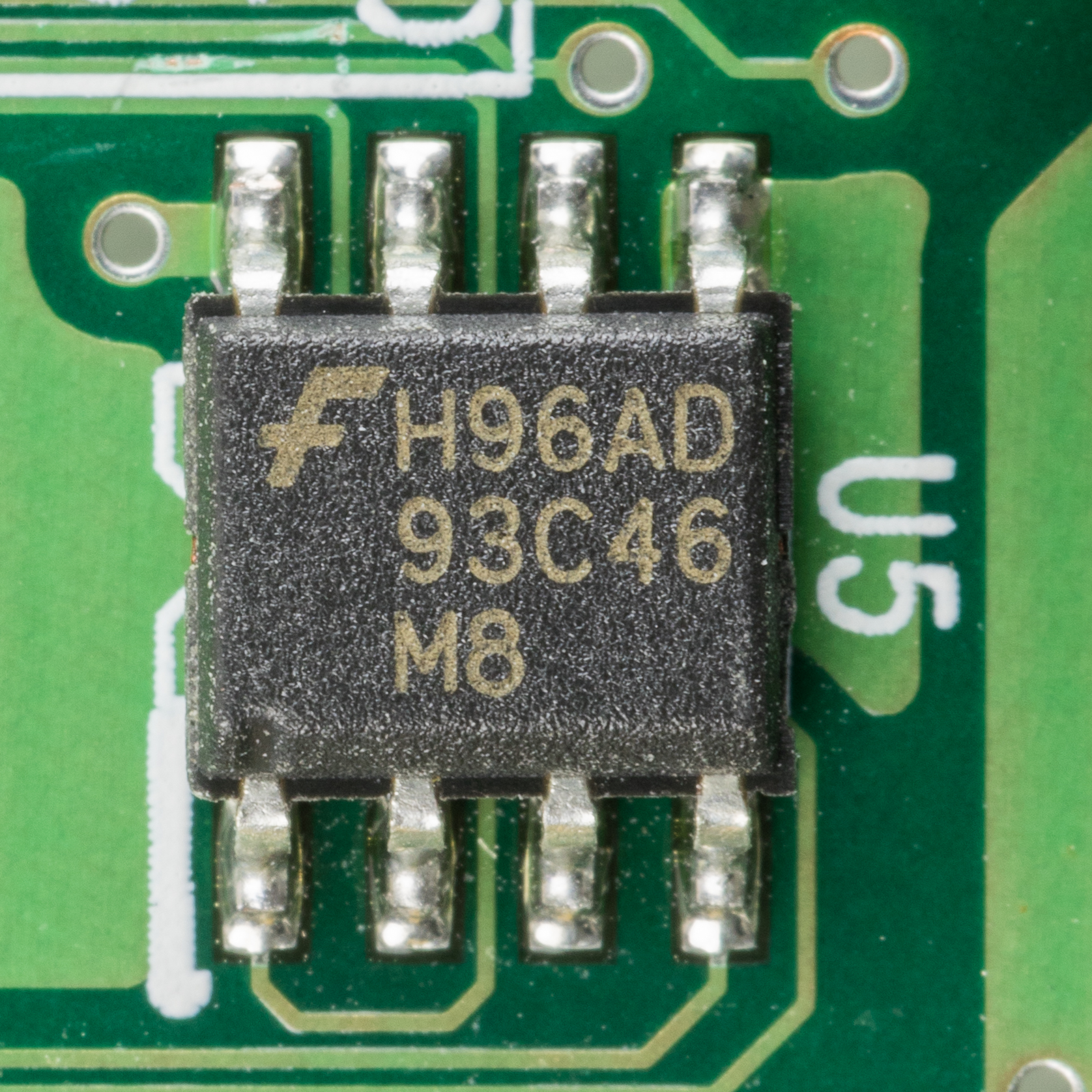 ADSV-931 Mini Docking Station - LAN module - Fairchild 93C46 (NM93C46) - 1024-Bit Serial CMOS EEPROM (MICROWIRE™ Synchronous Bus). Package: 8-pin SO